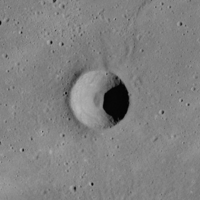 Swift, Mare Crisium, on the moon. Camera altitude 226 km, sun elevation 25 deg.